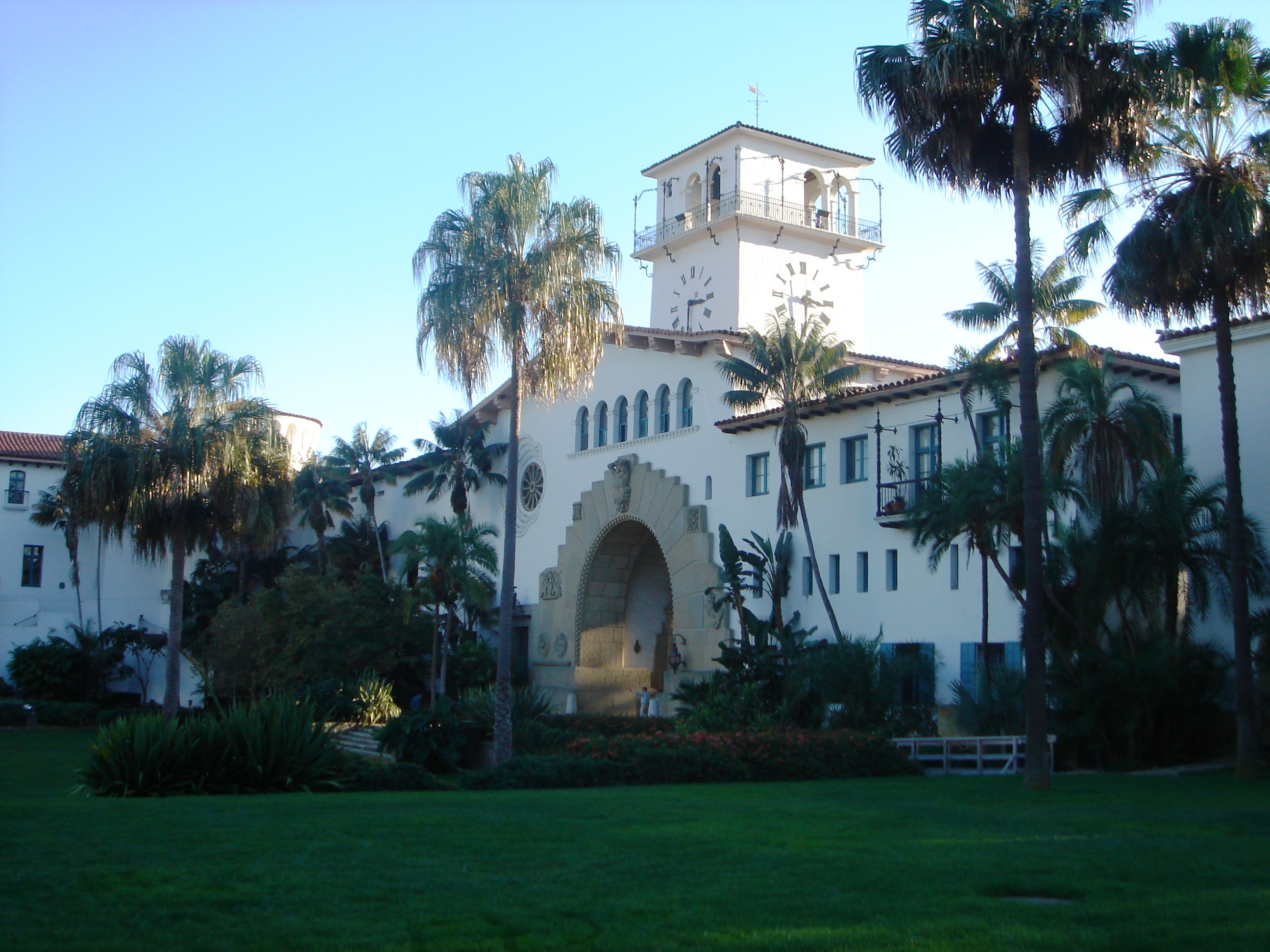 Santa Barbara County Courthouse, exterior view, Santa Barbara, California. Picture taken 11/06.